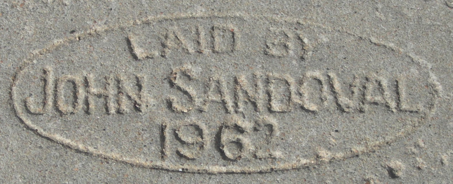 From sidewalk in Denver, Colorado; stamp of contractor giving date (1962) that the concrete was laid.